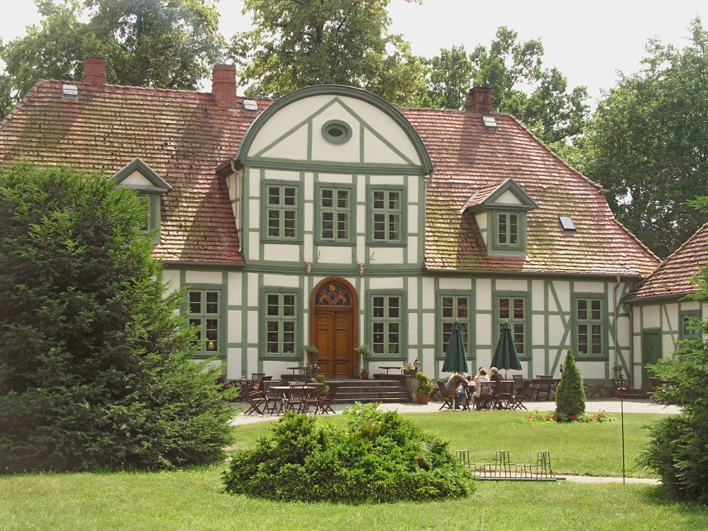 huntingseat Friedrichsmoor, Mecklenburg (Germany), photo 2007